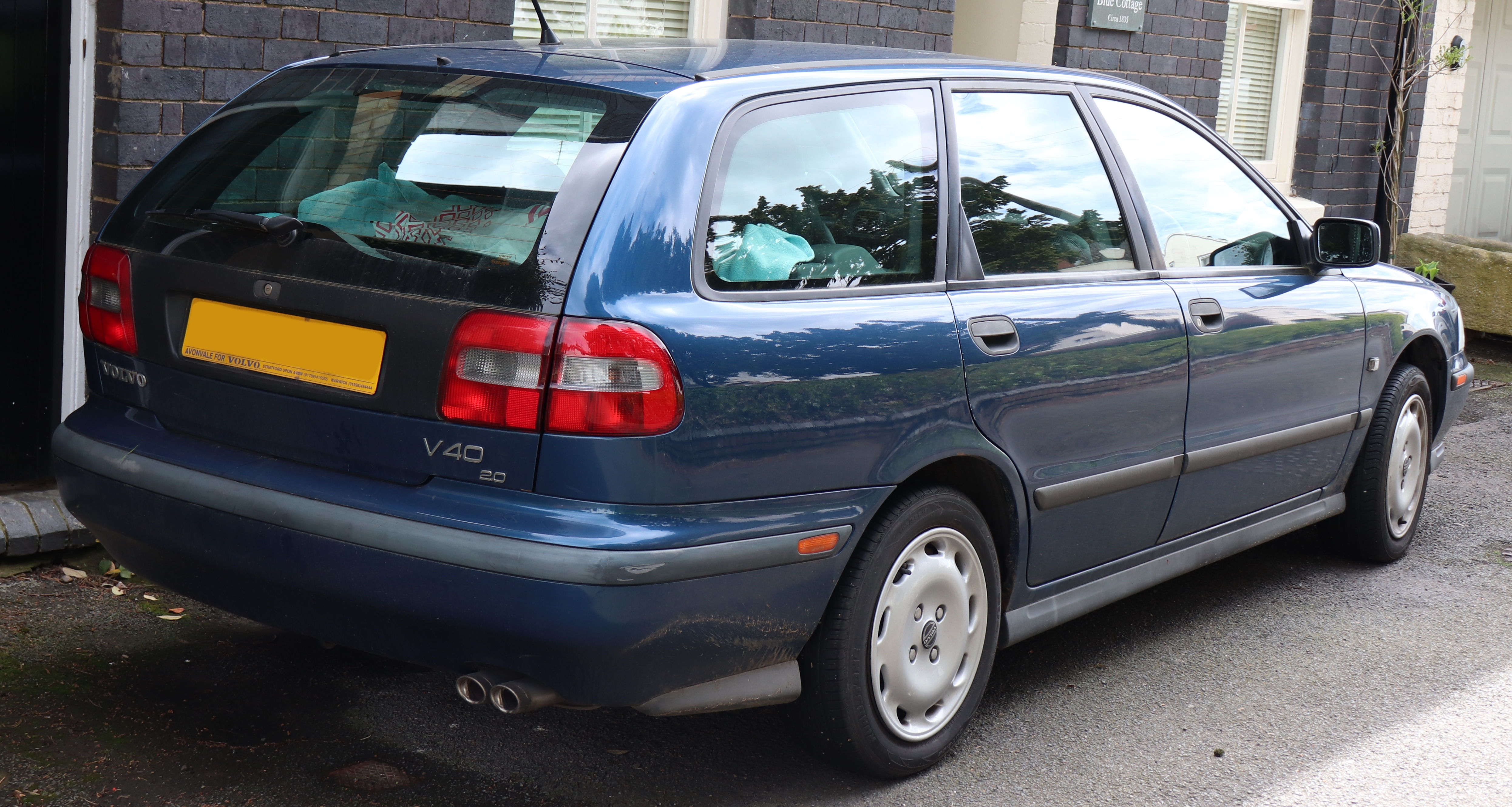 1998 Volvo V40 CD 2.0 Rear Taken in Leamington Spa